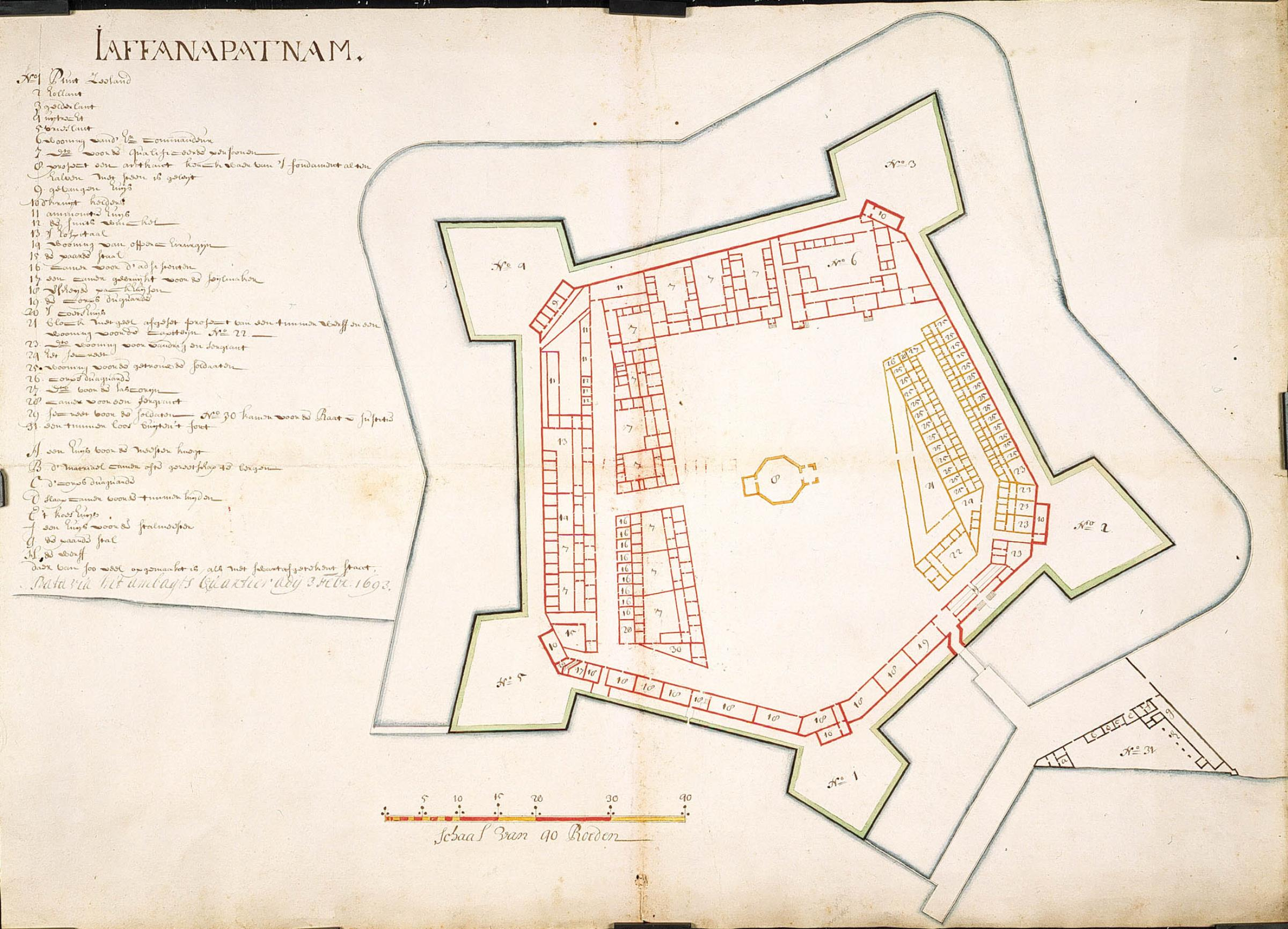 According to the Leupe catalogue (NA), the original title reads: Platte grond van het Kasteel te Jaffanapatnam. Map of the fort at Jaffanapatnam, with buildings and a house for the carpenter. The buildings constructed in 1693 are indicated in black, while the planned house for the carpenter is shown in yellow. Notes on reverse: Kaart van het Casteel tot J [...] nr. 2. [Printed label] nr. 545..